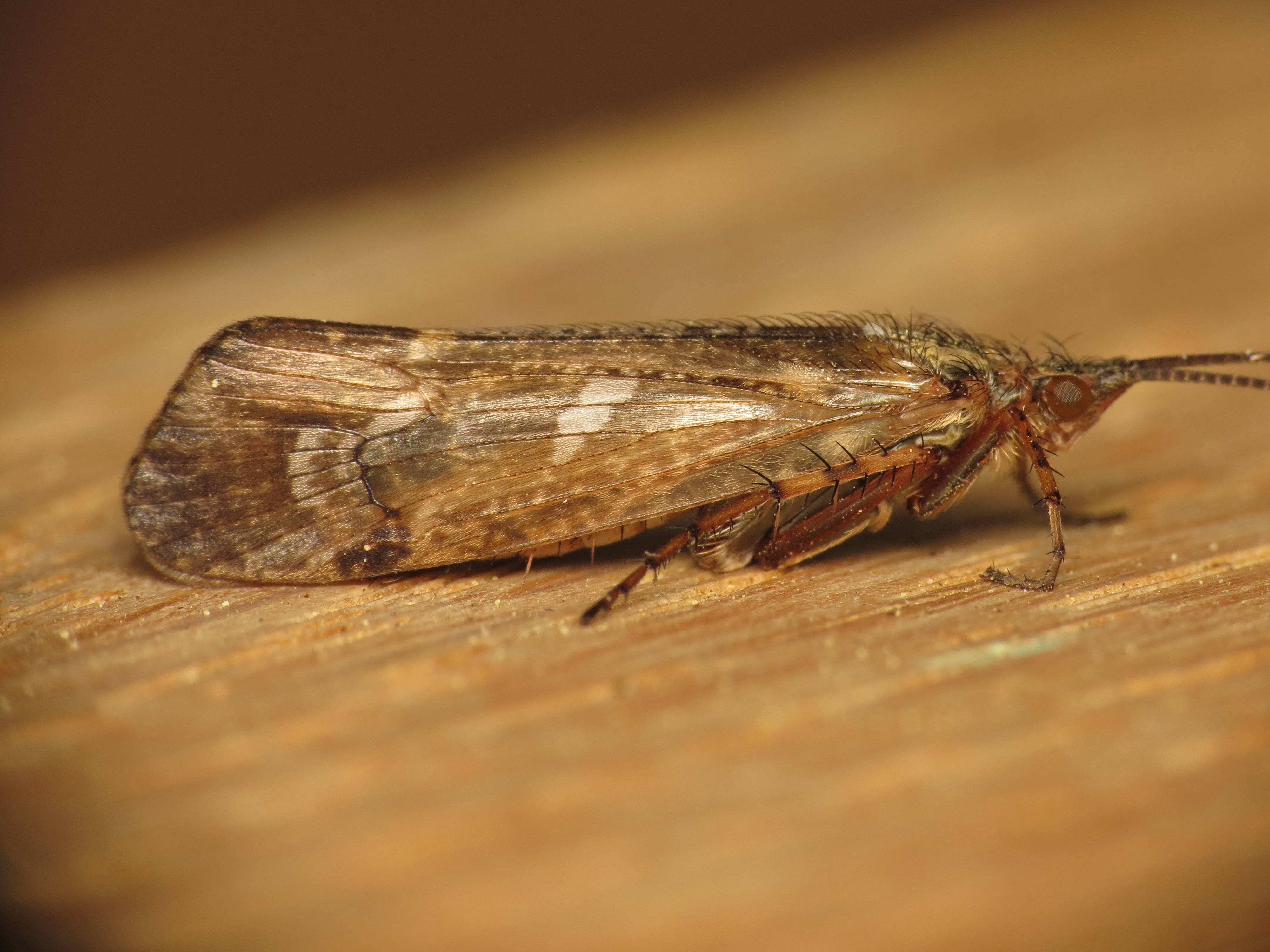 Limnephilus binotatus Curtis, 1834, to Robinson trap, Søborg, Denmark, 29/30 April 2014